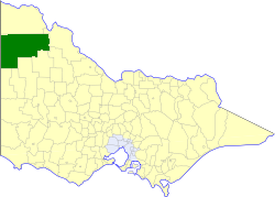 Location of the Shire of Walpeup within Victoria.